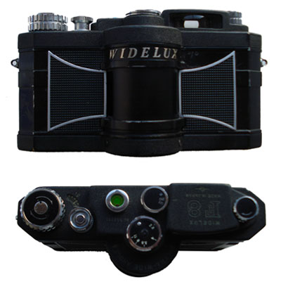 Photo of a Widelux panoramic photograph camera